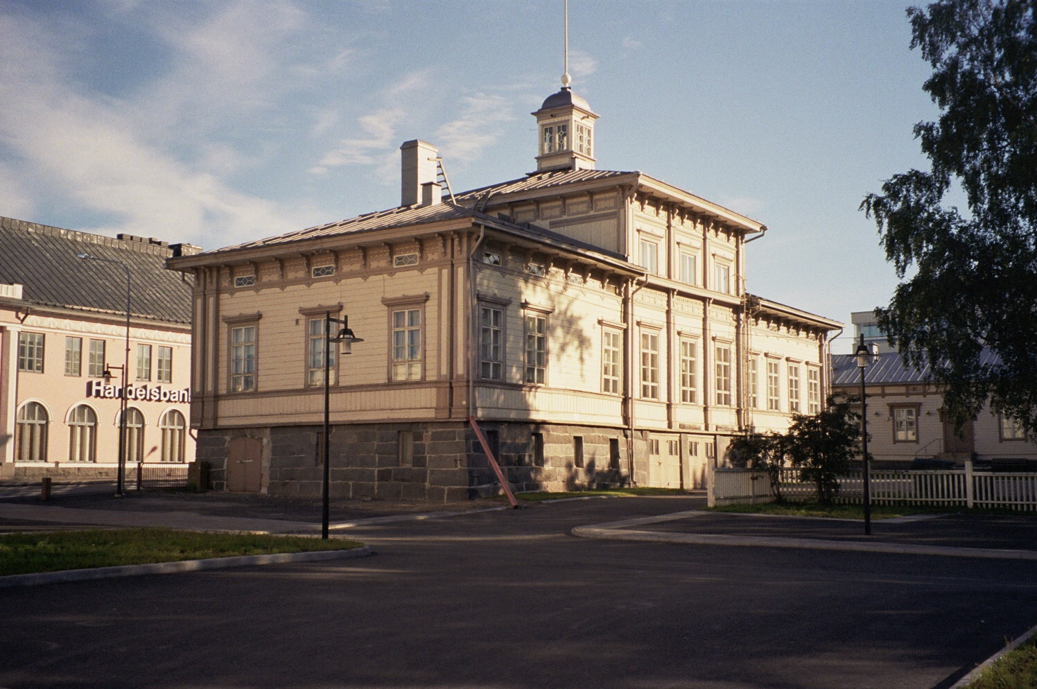 An old town hall in Suensaari, central Tornio, Finland. It is located alongside the Hallistuskatu street and was constructed in 1874.